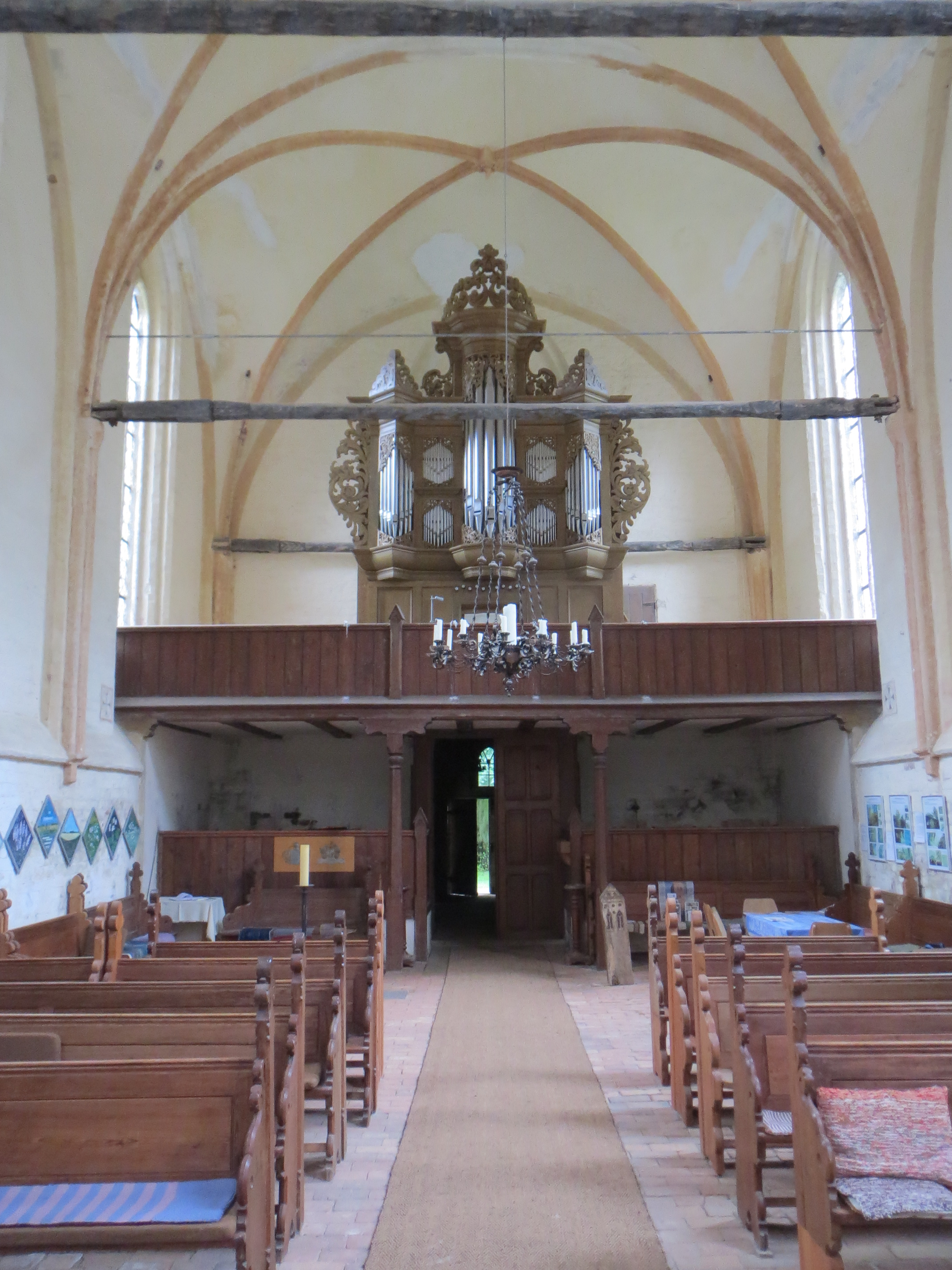 Kirche Zurow